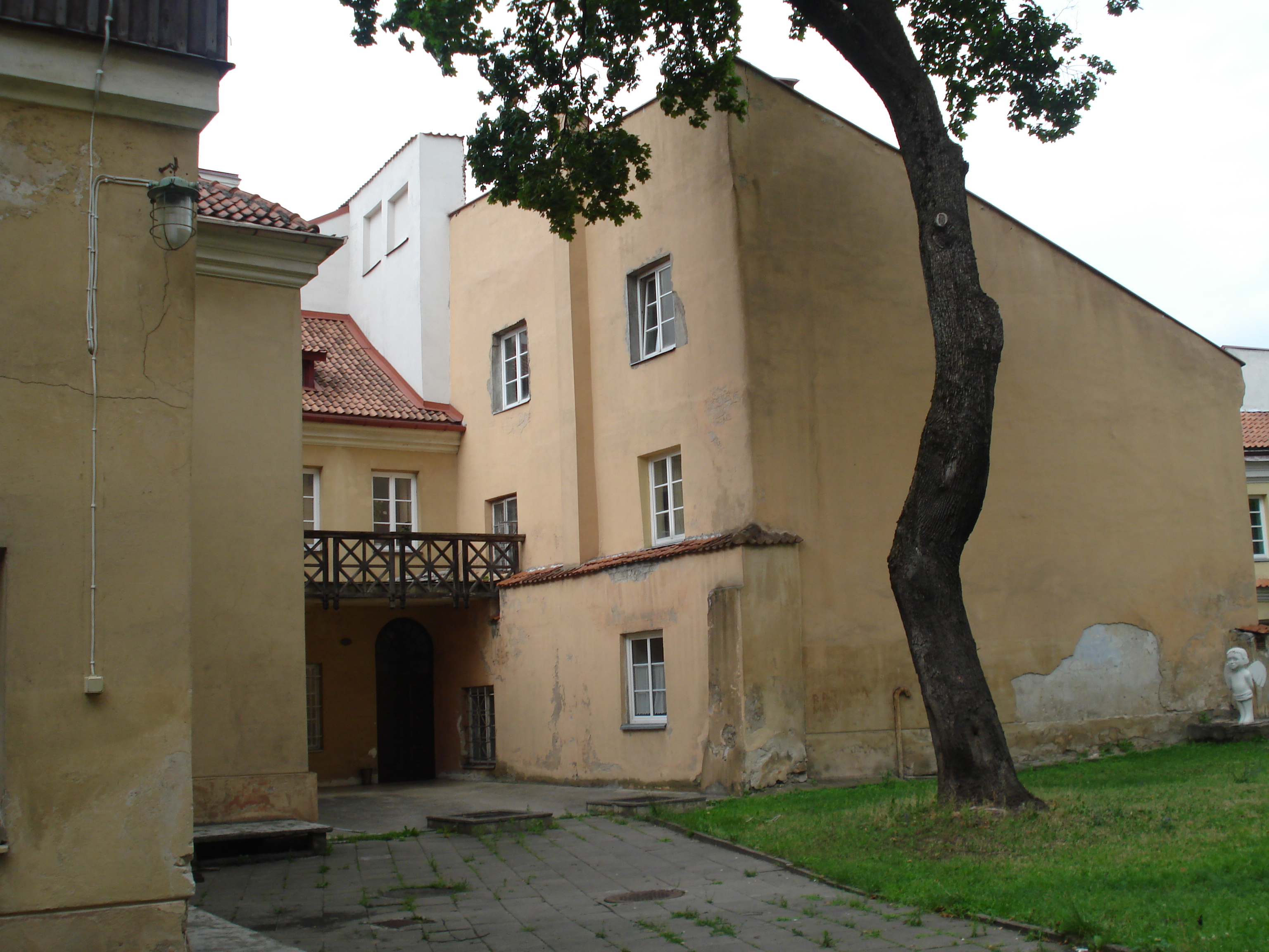 K. Sirvydas Courtyard Between the north wing of the Great Courtyard and the Church of Sts. John (Vilnius University)